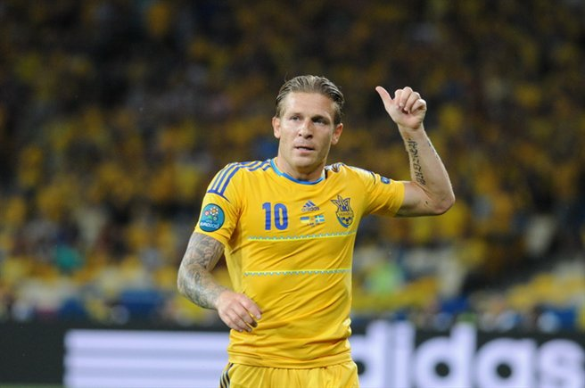 UEFA Euro 2012 match between Ukraine and Sweden that took place in Kiev. Final result was 2:1 (2xShevchenko - Ibrahimović)